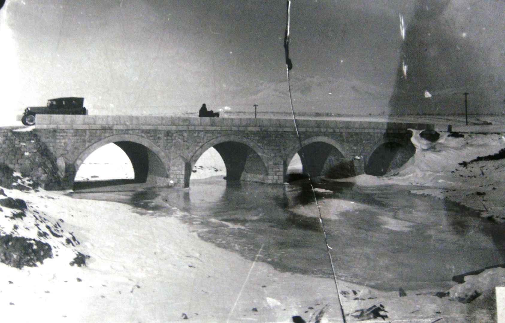 Stone Bridge in the locality Dovledzik in Bitola, designed by engineer Sterjo Chumeti. 1900 This media file is produced by Wikipedian in Residence in Category:Wikipedian in Residence at DARM in 2016.